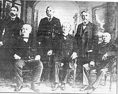 Members of the Boundary Commission set up by the United States. In the back row at left, is a young Severo Mallet-Prevost, while Justice Brewer sits in front row, centre.